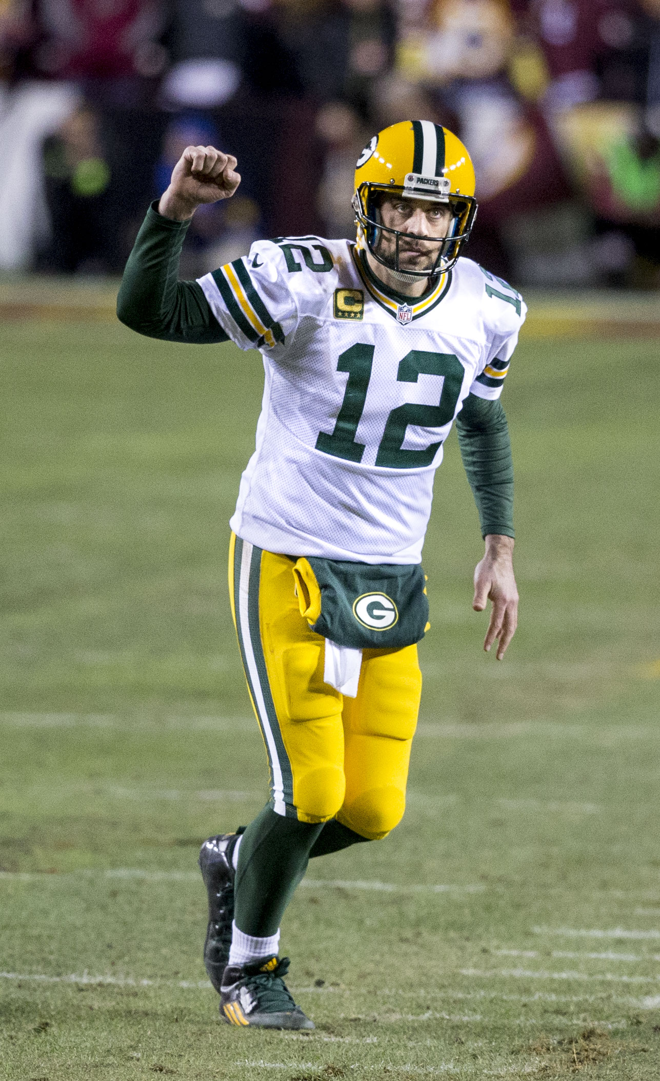 Packers at Redskins Wildcard Game 01/10/16